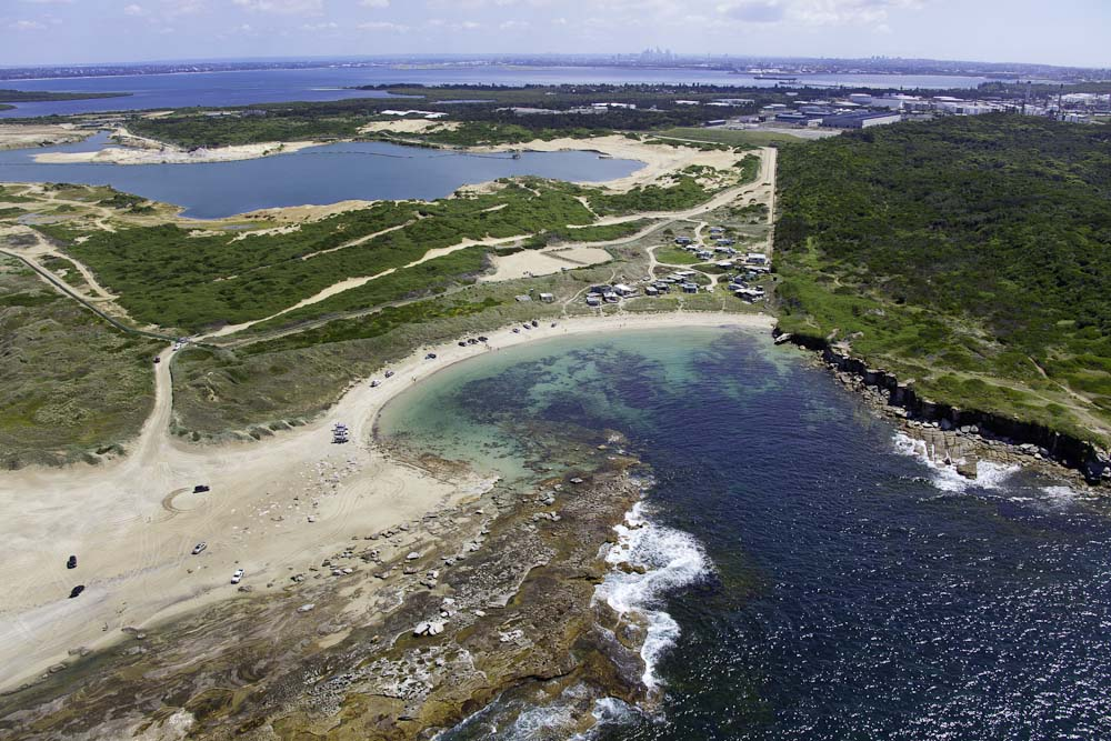 Small beach on the southern side of the Kurnell peninsula, northern end of Bate Bay. Sydney city in the distance.